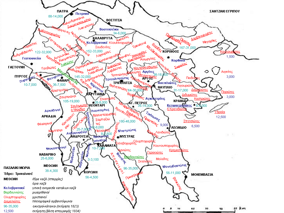 Map of Peloponnese from 1715 to 1821